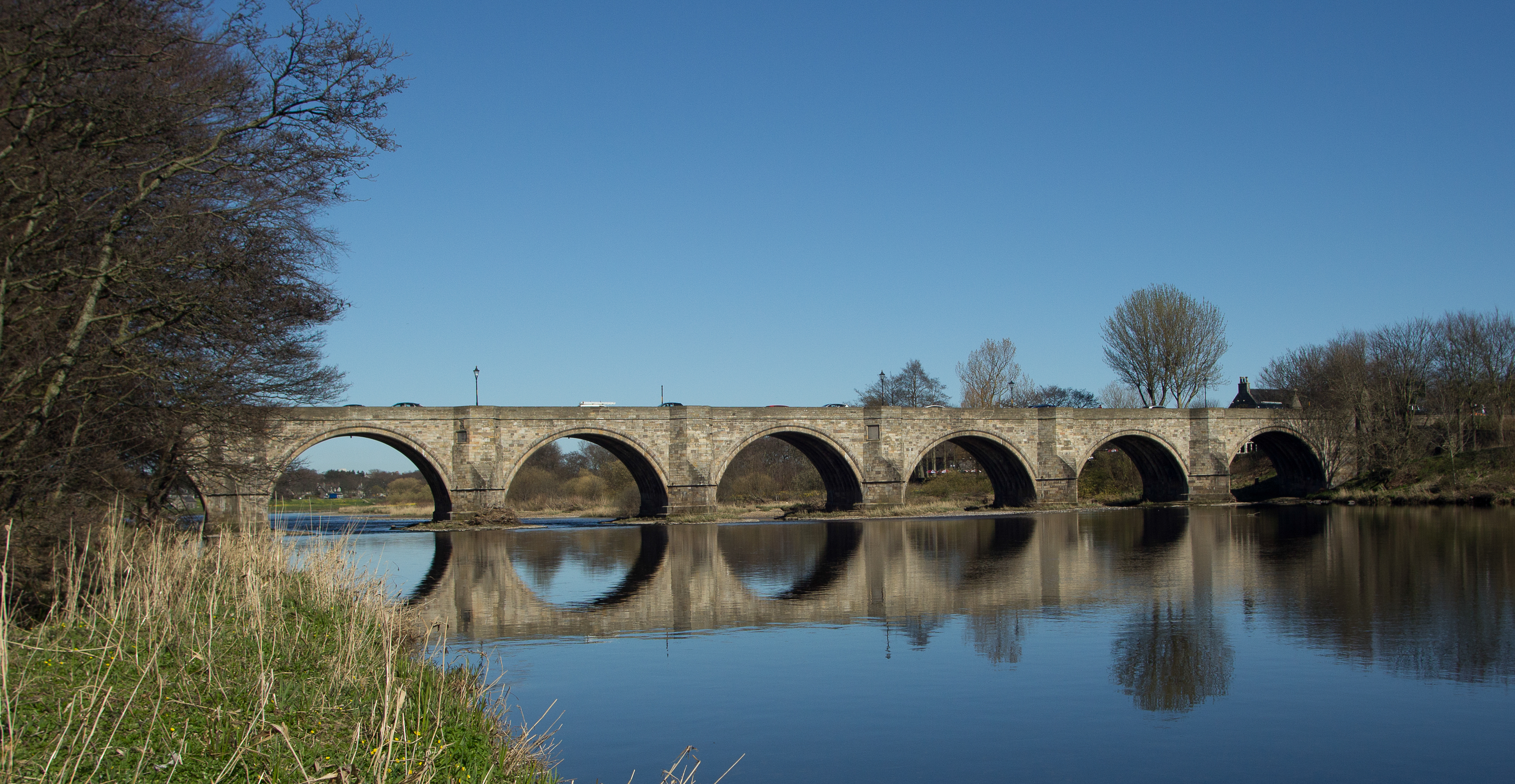 Bridge of Dee in Aberdeen. Built by Bishop Gavin Dunbar. Master of Works Canon Alexander Galloway. Thomas Franche Master stonemason.